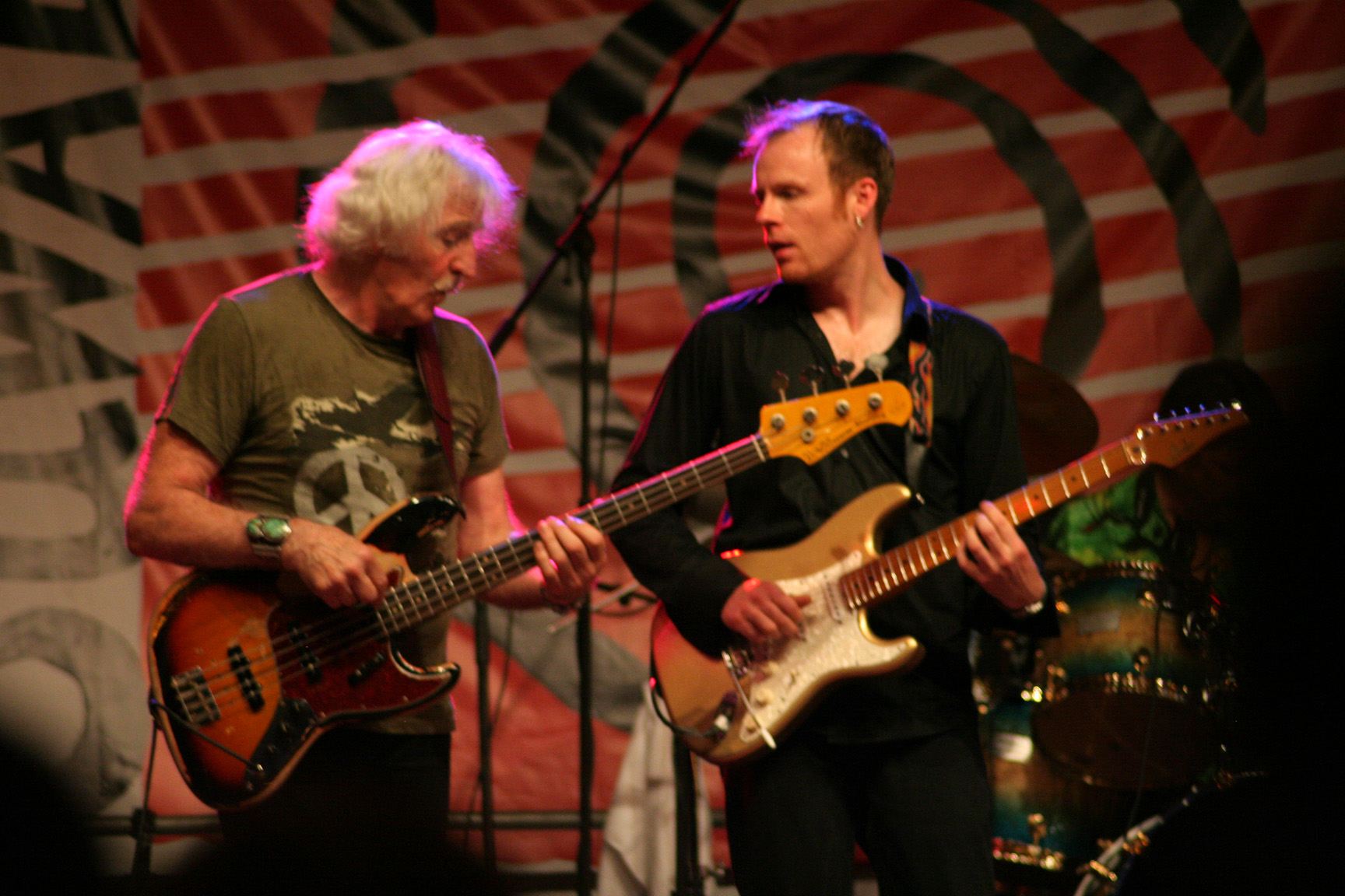 Ten Years After at Suwałki Blues Fesival 2009 in Suwałki.